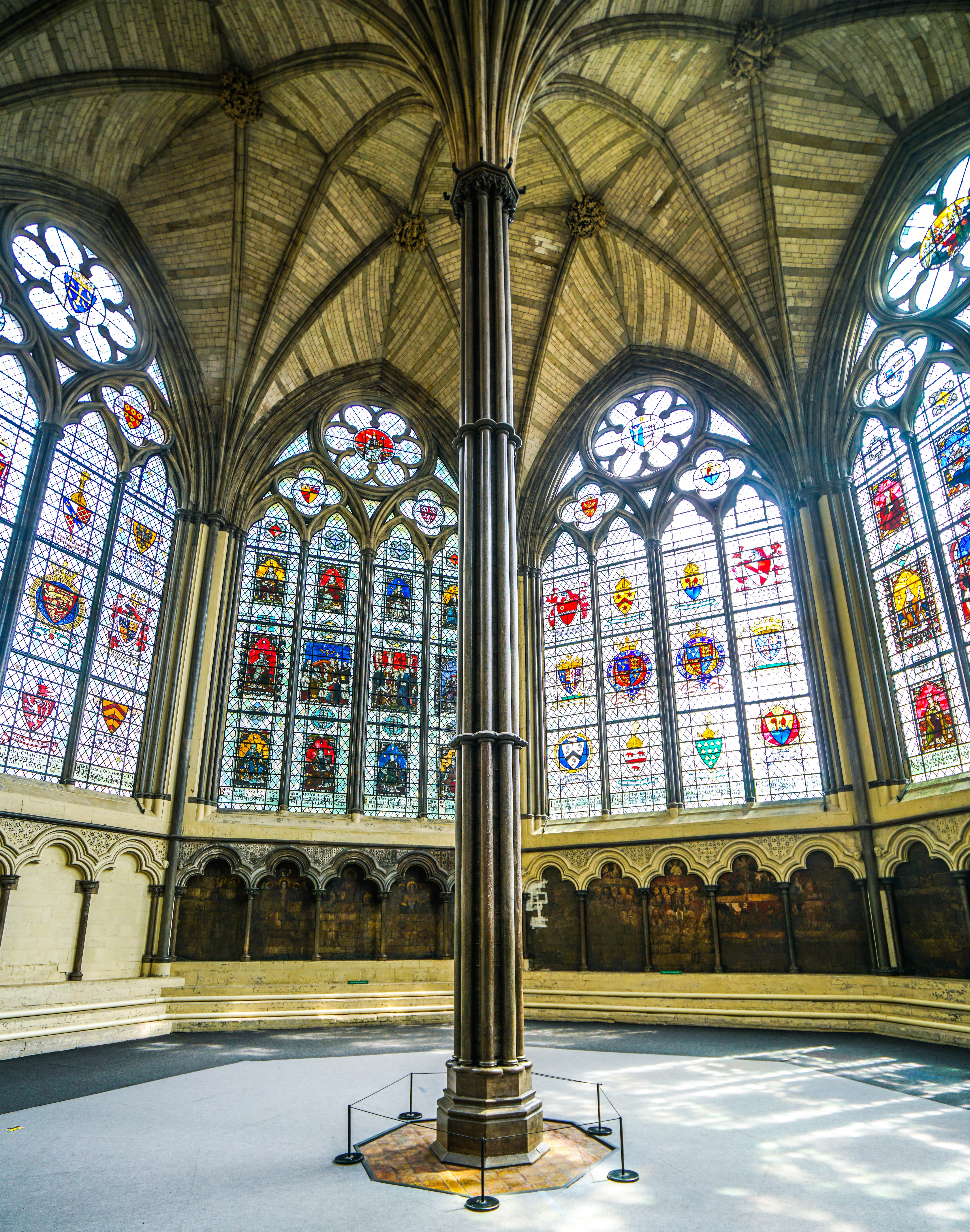 Chapter house of Westminster Abbey (London)